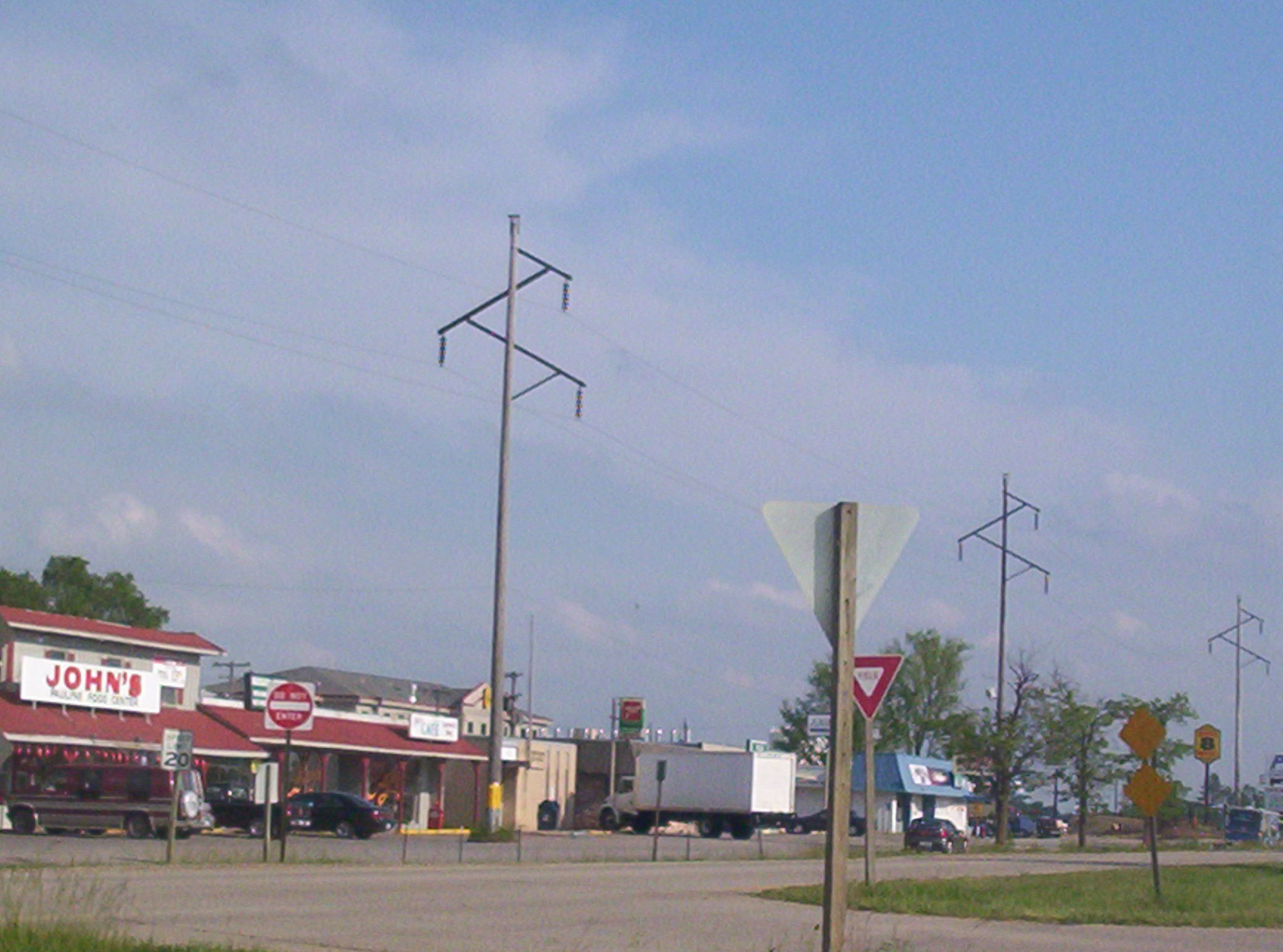 Business area of Pauline on Southwest Topeka Boulevard.